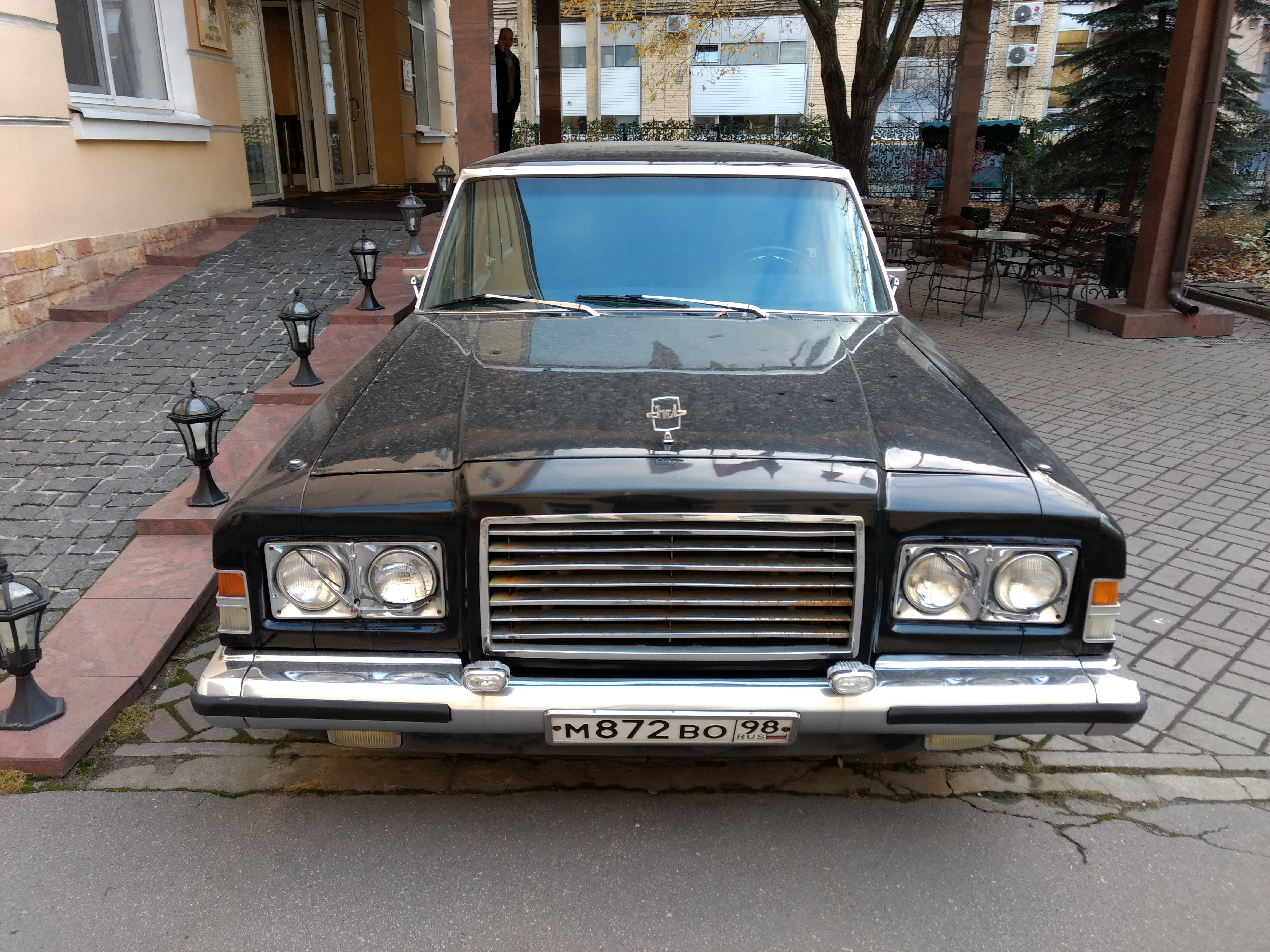 ZiL-115 soviet limousine, Saint Petersburgh, Rusia.